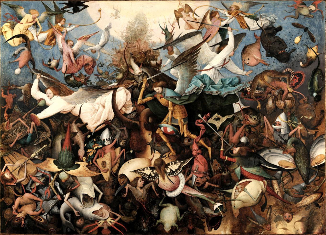 This is a derivative work based on the Google Art Project image here (see Gallery below). The file has been reduced in size and the image lightened in LCH space, a colour space designed to approximate the visual experience. The purpose was to lighten the image without affecting the hue and saturation of its colours. The tool used was the AutoContrast edit in LCH space in Nikon's Capture X2 image processing software.